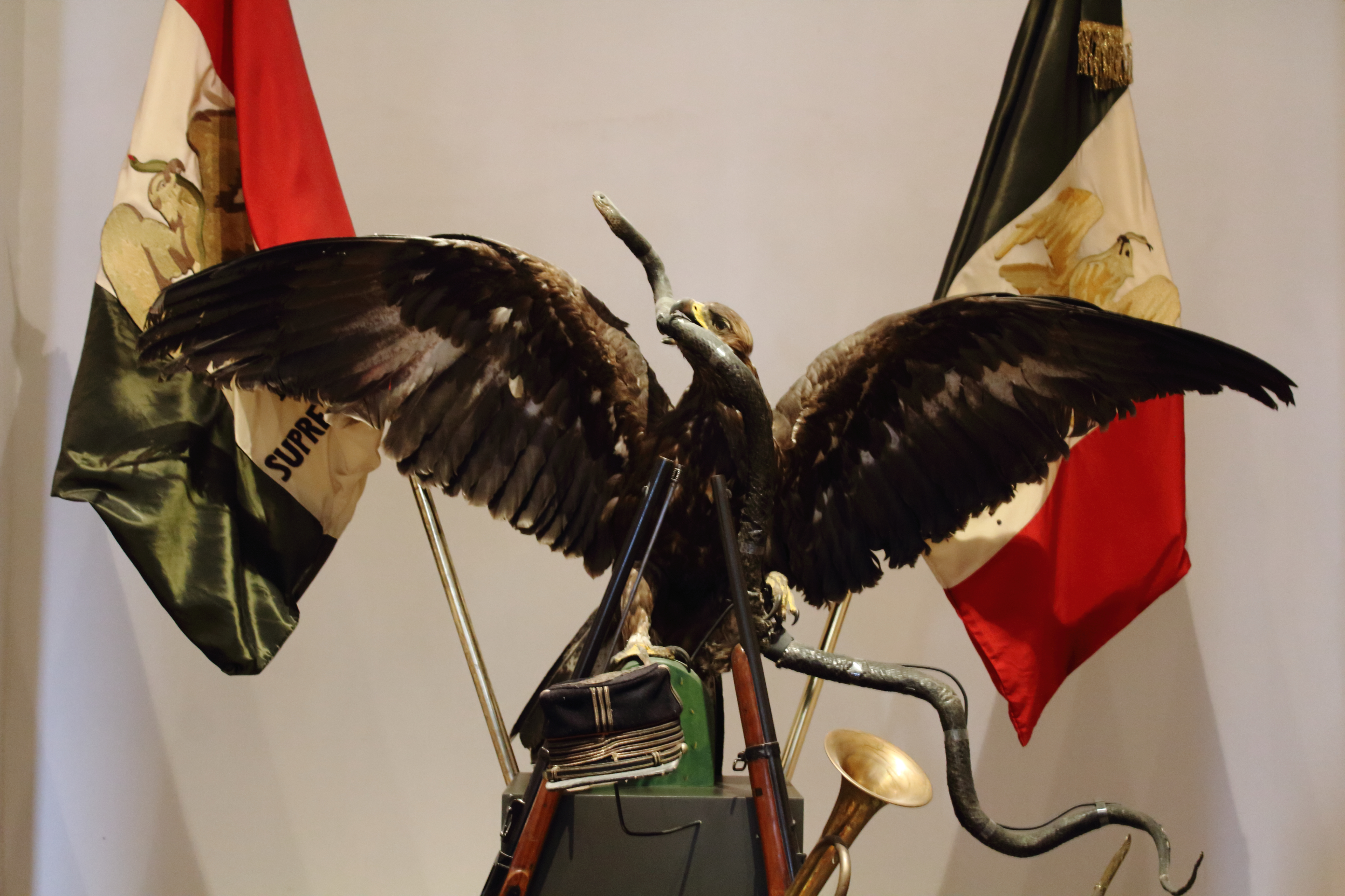 Symbolic representation of representative aspects of Mexican history. They appear the flags of the First Battalion of Oaxaca (1862-1878) and another one of the Supreme Power Battalion (1864-1867) that was the one that fought to the French army.